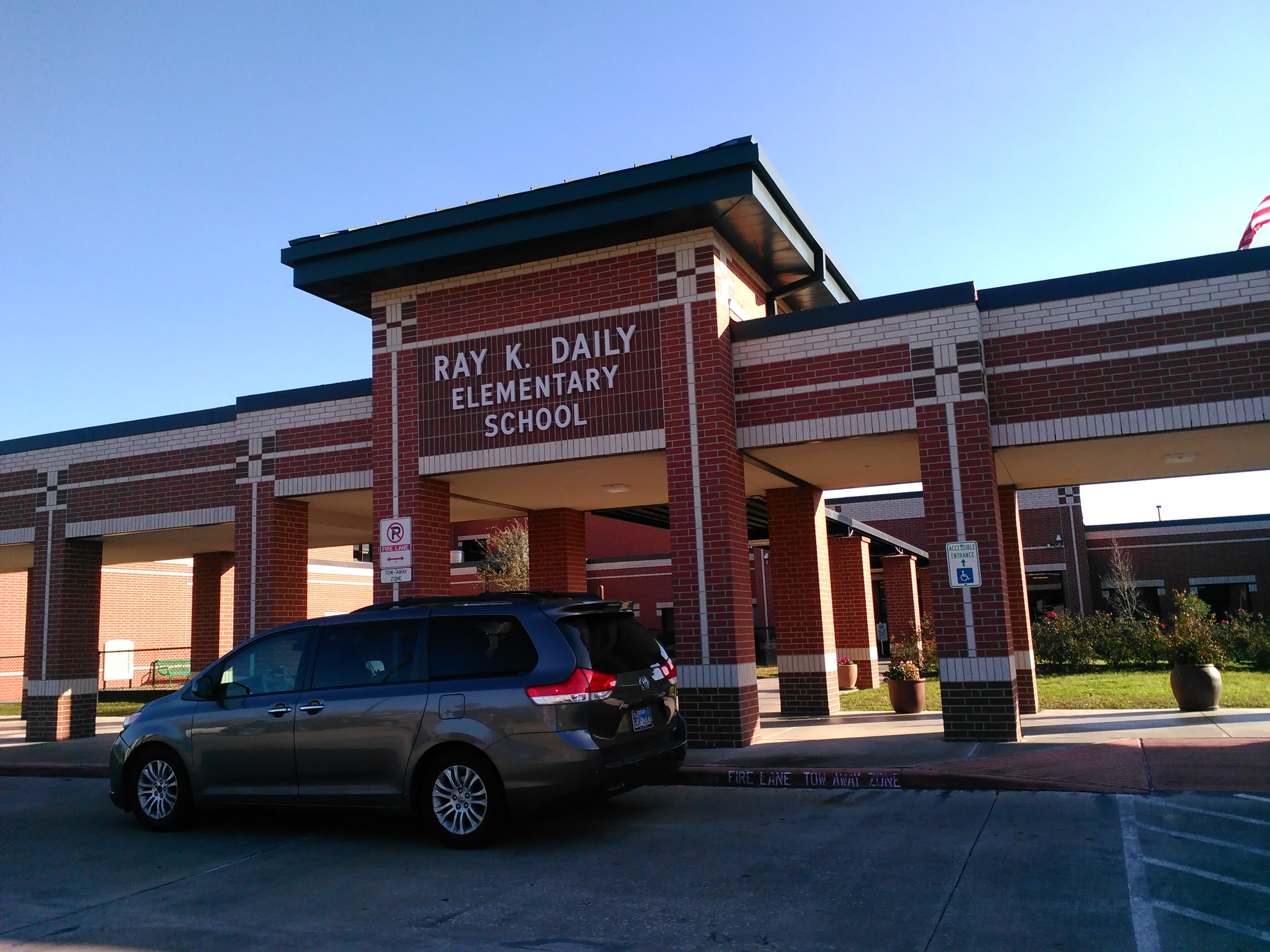 Ray K. Daily Elementary School